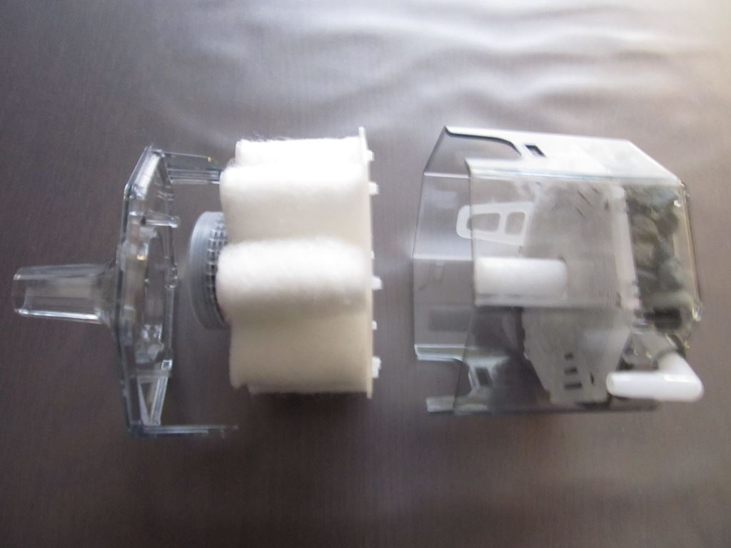 Suisaku airlift filter for aqualium